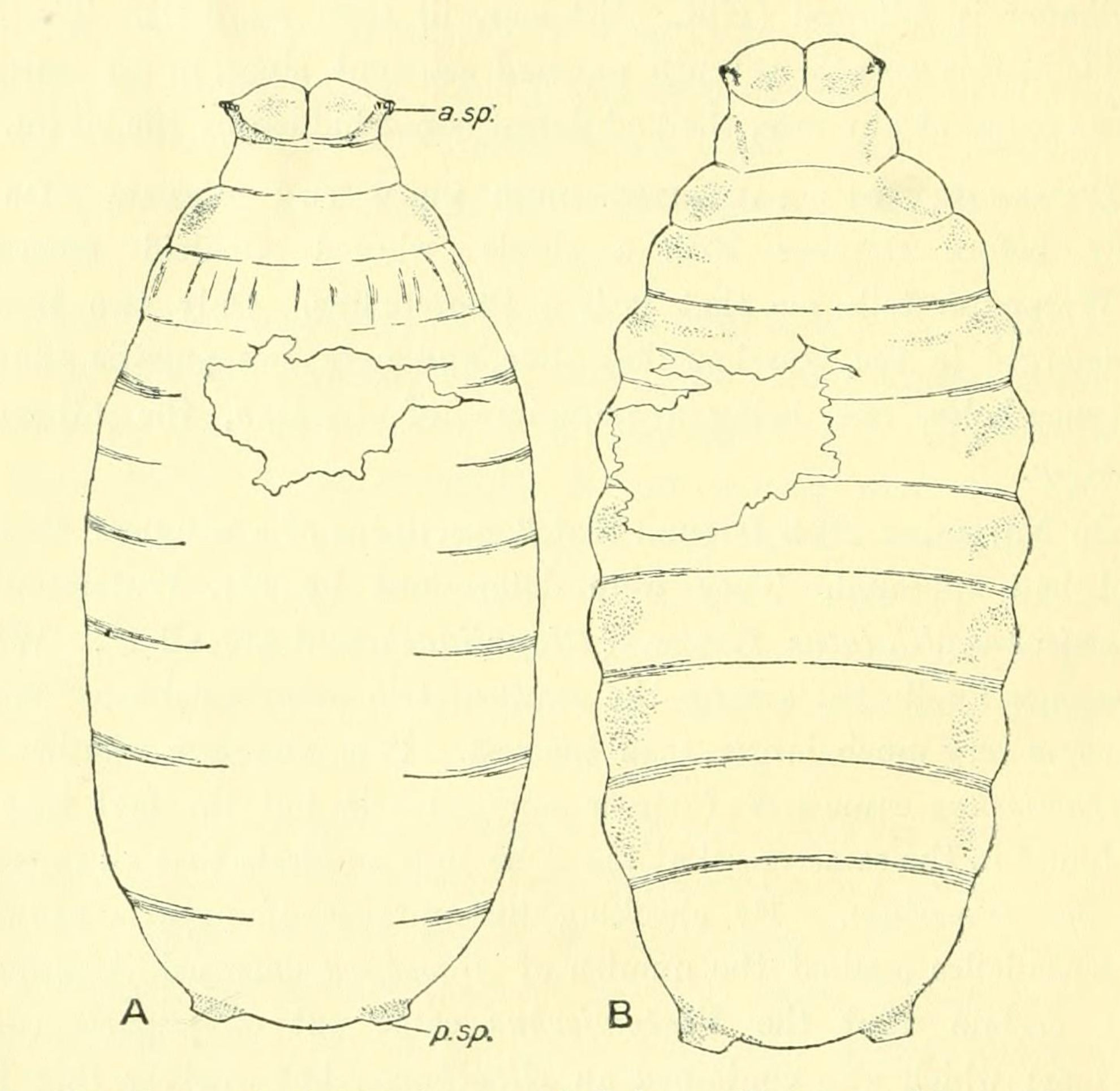 Dorsal aspect of puparium : A, of Coelopa pilipes ; B, of Fucomyla gravia (actual synonym : Coelopa frigida). Both X 12. a.sp., anterior spiracles; p.sp., posterior spiracles (of last larval stage, persisting in puparium). Both puparia show the irregular hole made by the emerging Aleochara algarum (actual synonym : Aleochara obscurella).